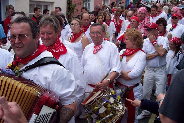 The red party attending the red 'obby 'oss with dozens of accordions and dozens of drums in the Padstow mayday festival.